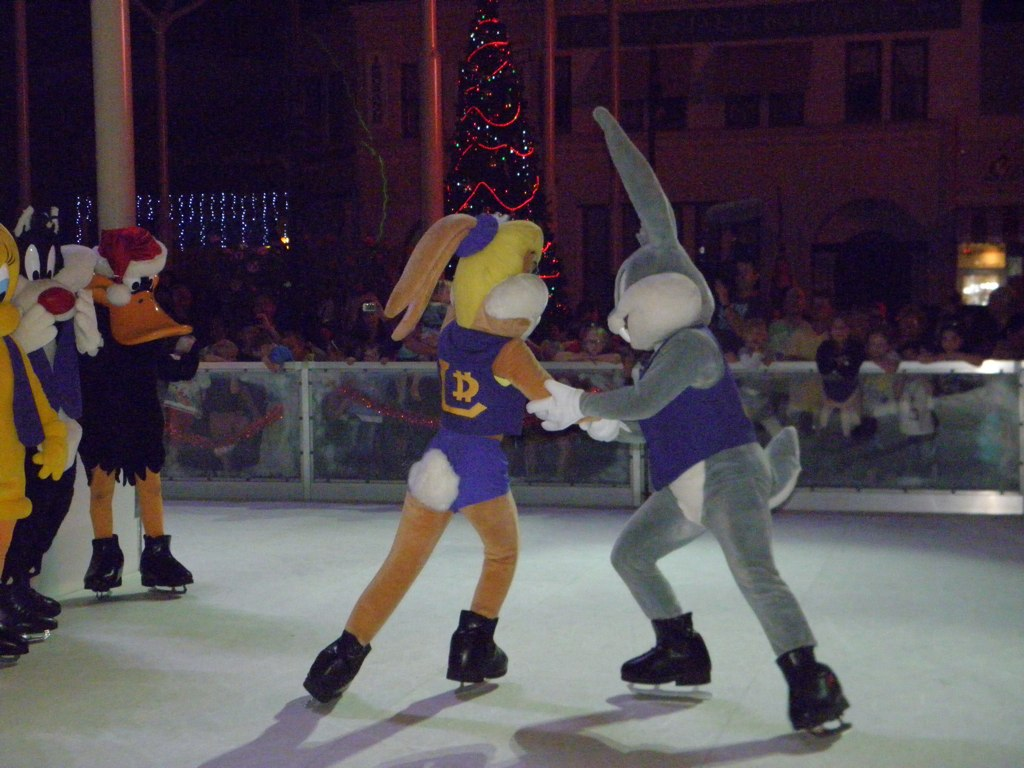 Lola and Bugs Bunny with Looney Tunes on Ice, White Christmas event, Warner Bros. Movie World Australia.